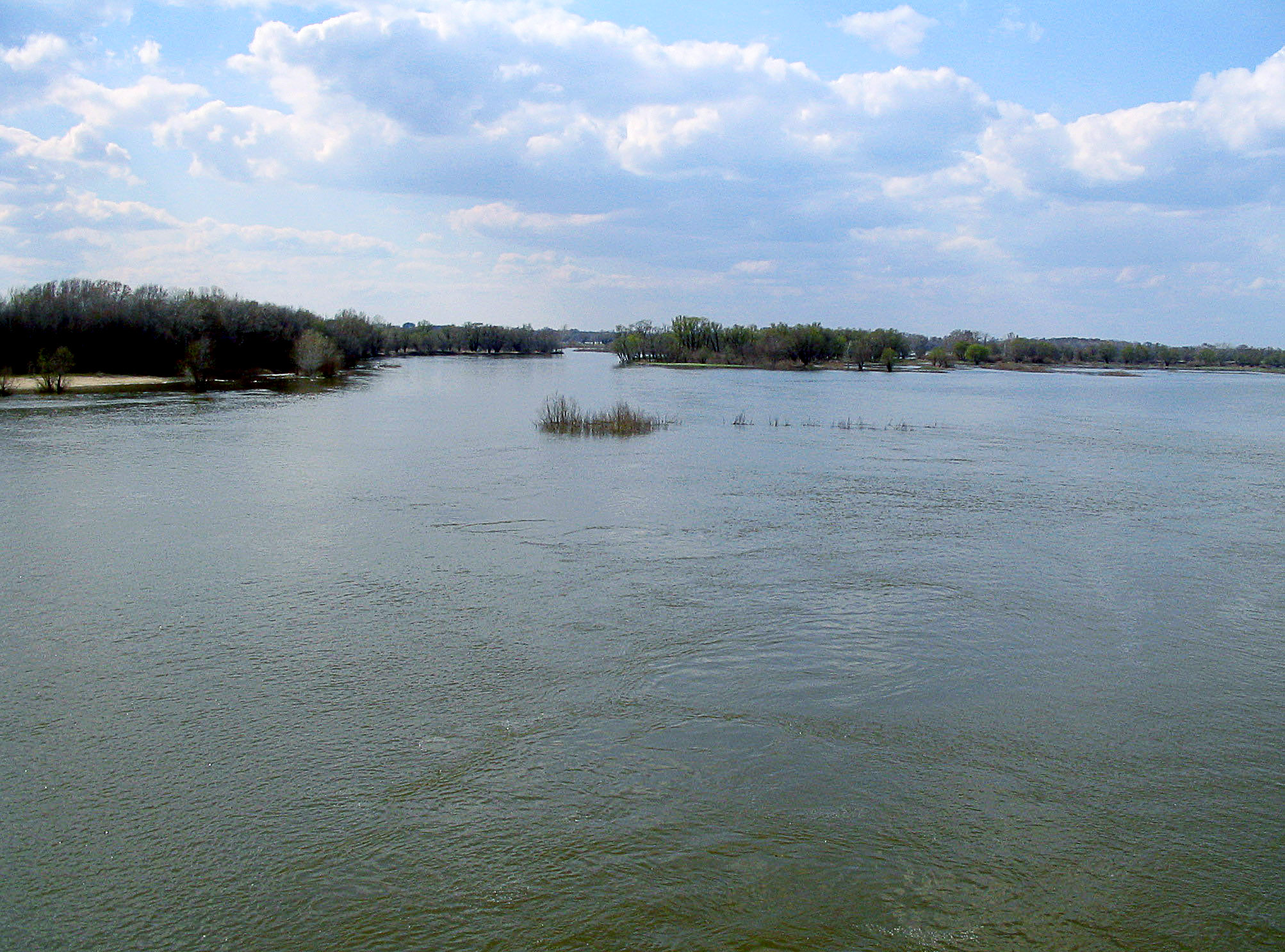 Akhtuba river, Akhtubinsk, Russia, high water